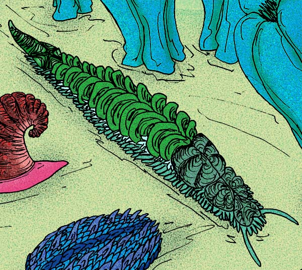 Reconstruction of the Early Cambrian organism Tommotia admiranda, from Siberia